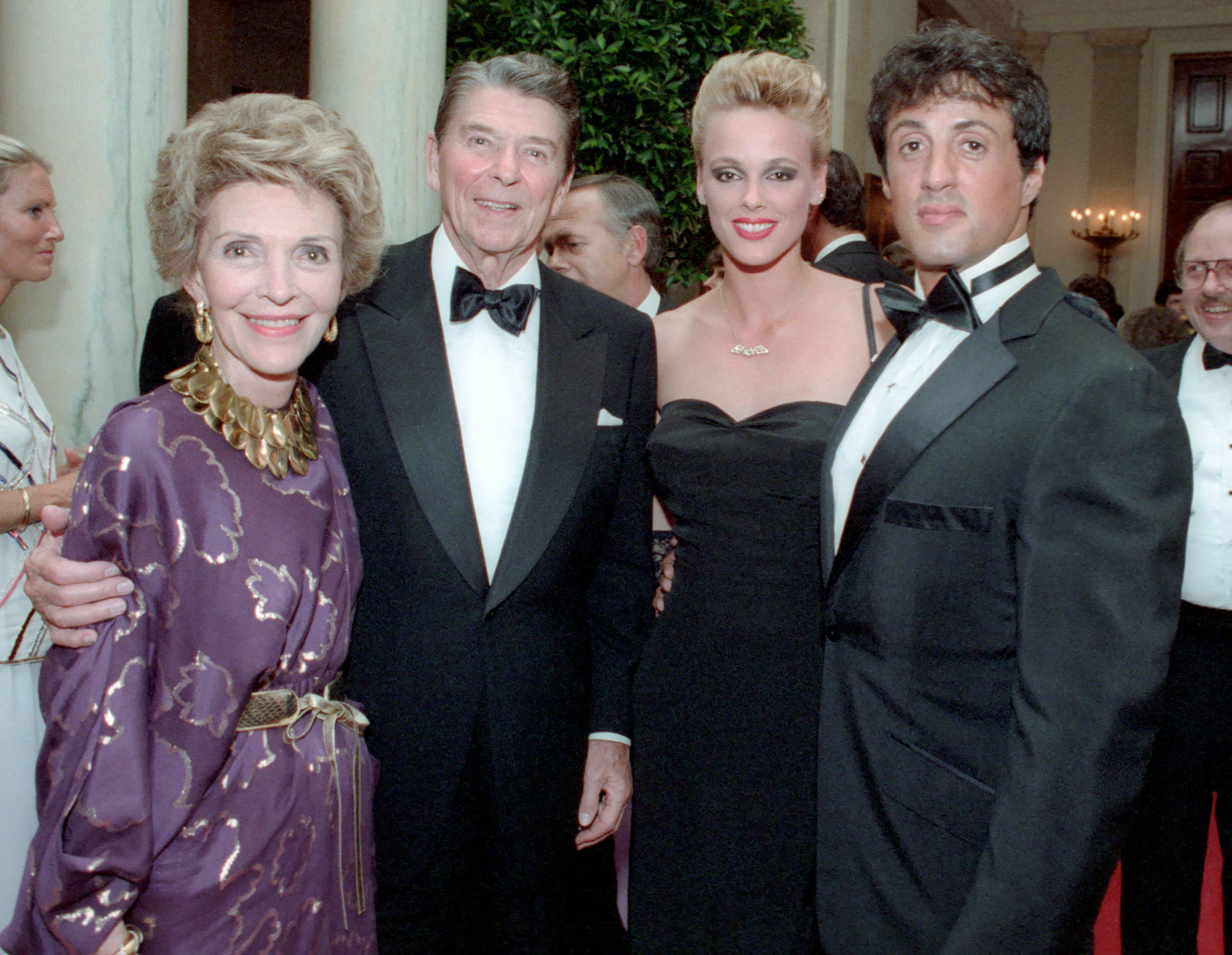 C31323-10, President and Nancy Reagan posing with Sylvester Stallone and Brigitte Nielsen during a state dinner for Prime Minister Lee Kuan Yew of Singapore. 10/8/85.